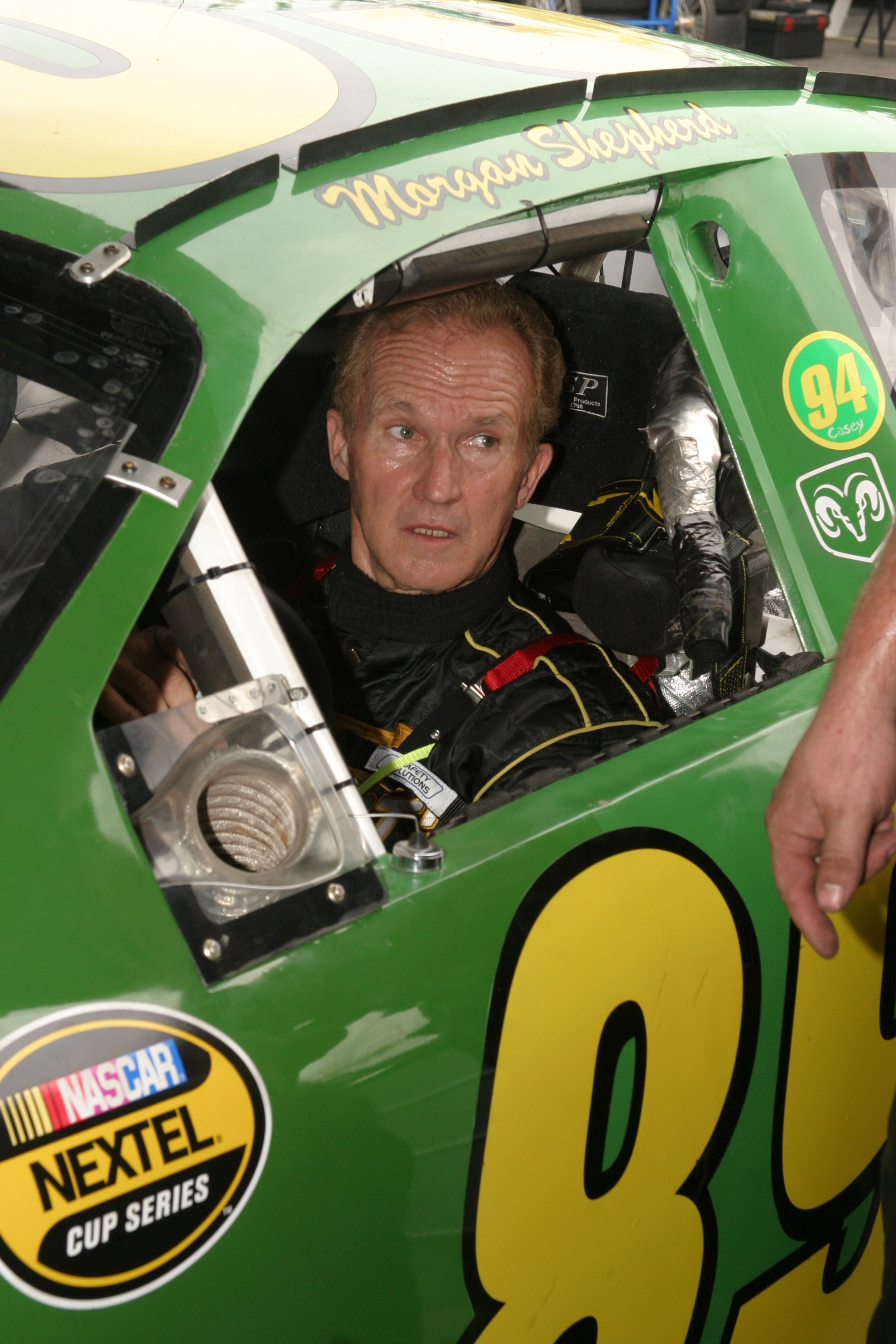 Morgan Shepherd in his car at New Hampshire Motor Speedway